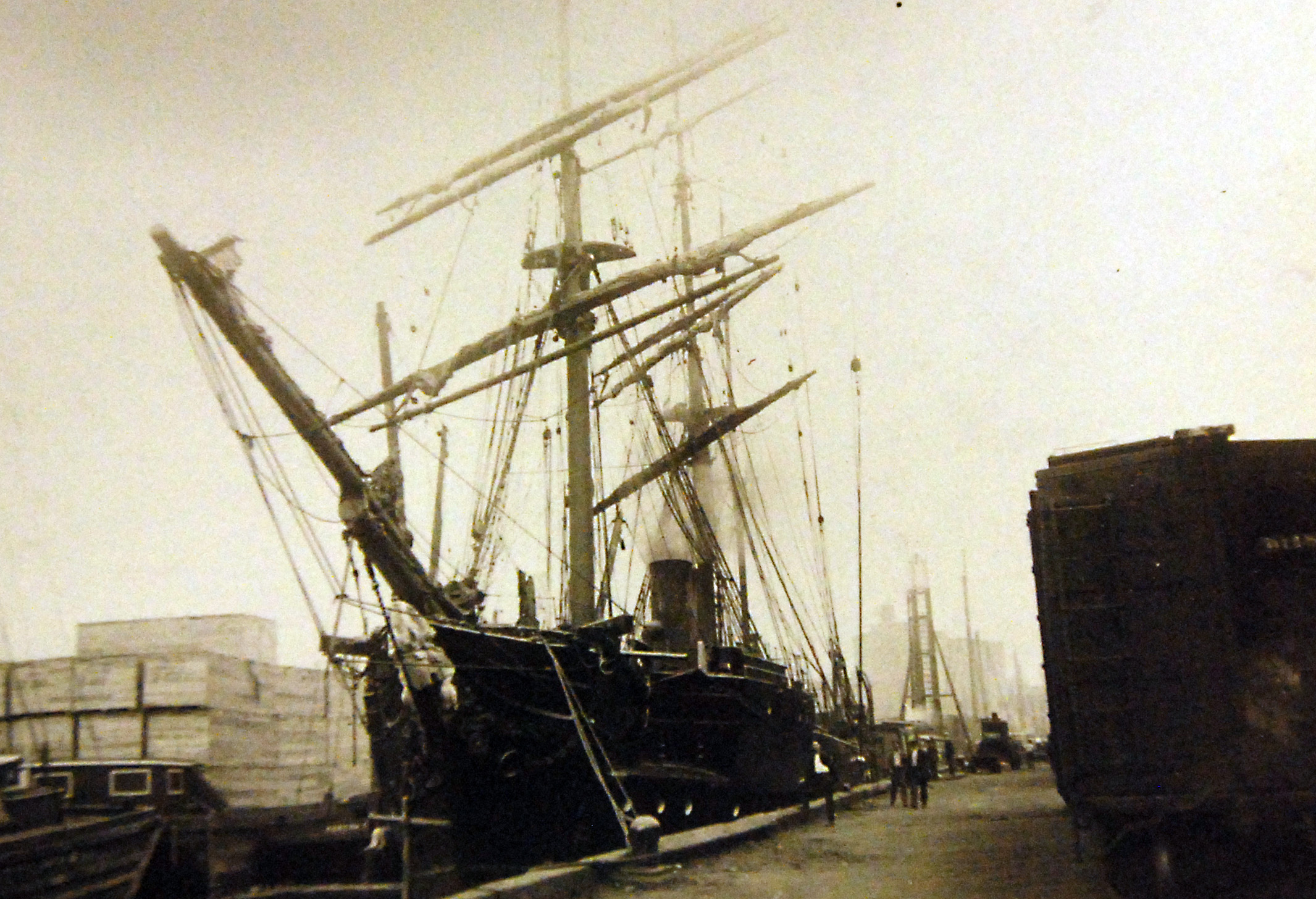 Lot-11259-4: WWI – Royal Navy. Pelican, formerly the Royal Navy sloop of war Pelican now owned by the Hudson’s Bay Company – loading cargo for the British Government at Bush’s Store, South Brooklyn, New York. George C. Bain Collection. Courtesy of the Library of Congress. (2016/10/14).